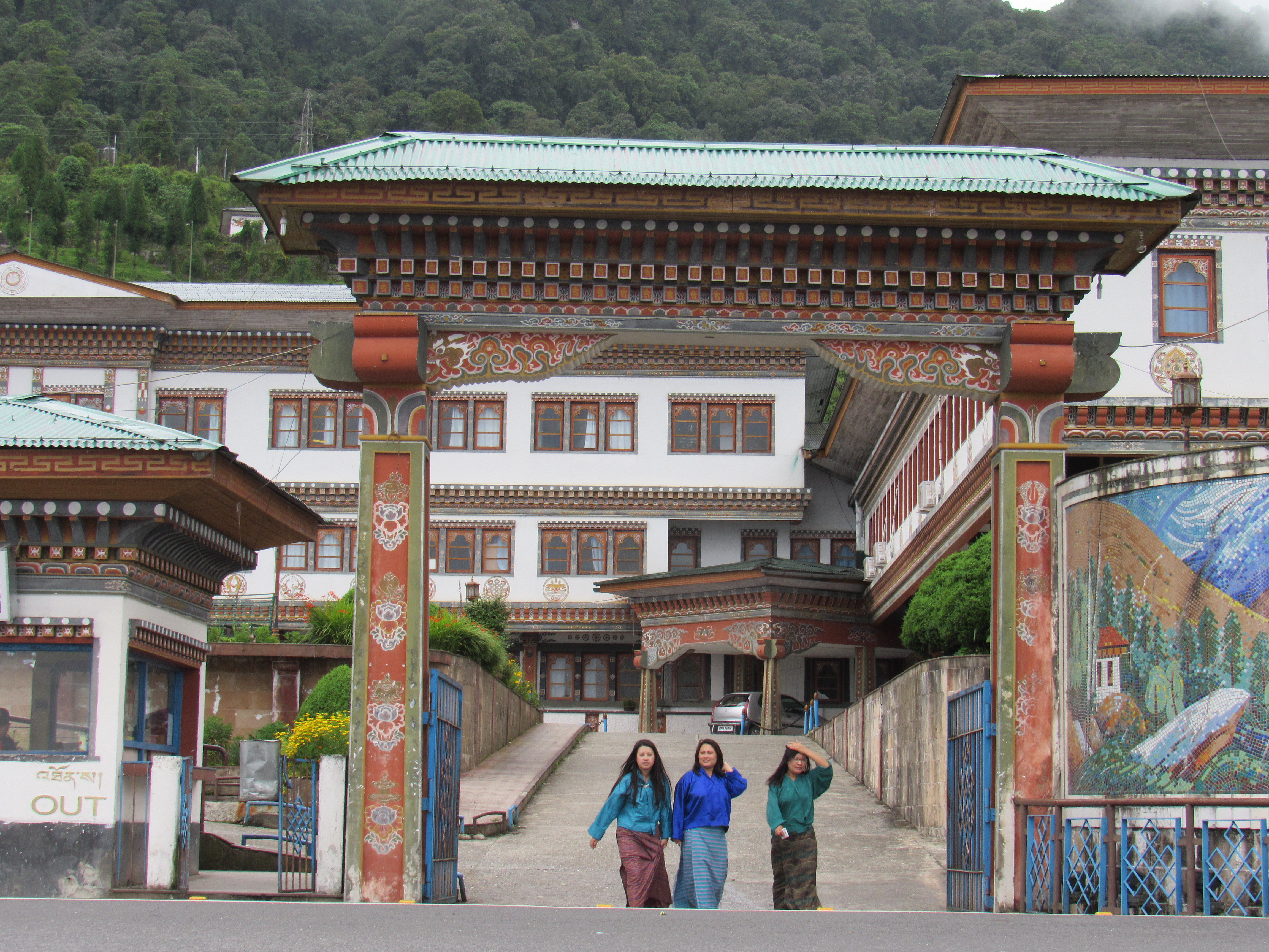 Gate of Gaeddu College of Business Studies in Bhutan